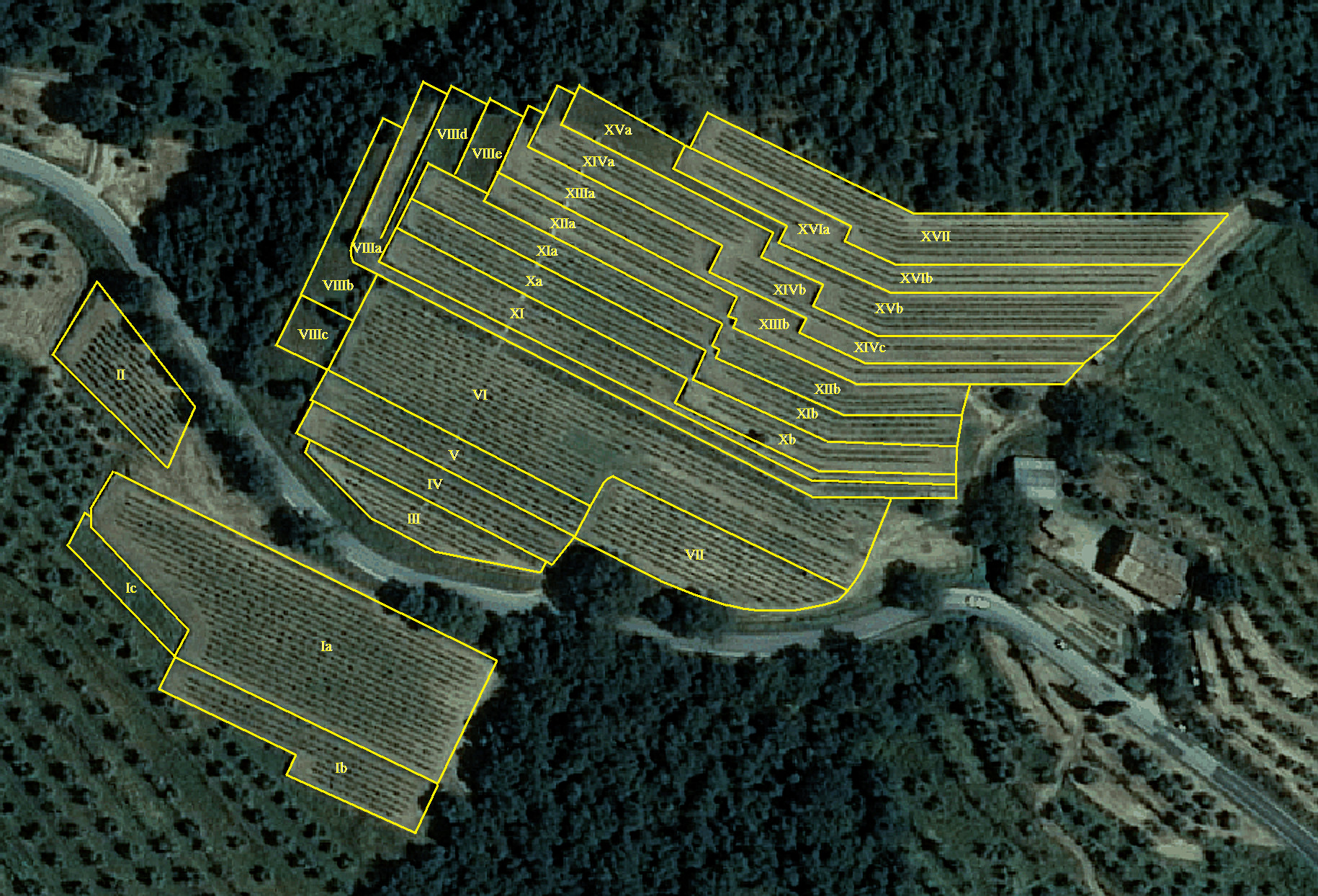 Vigna delle Sanzioni Map